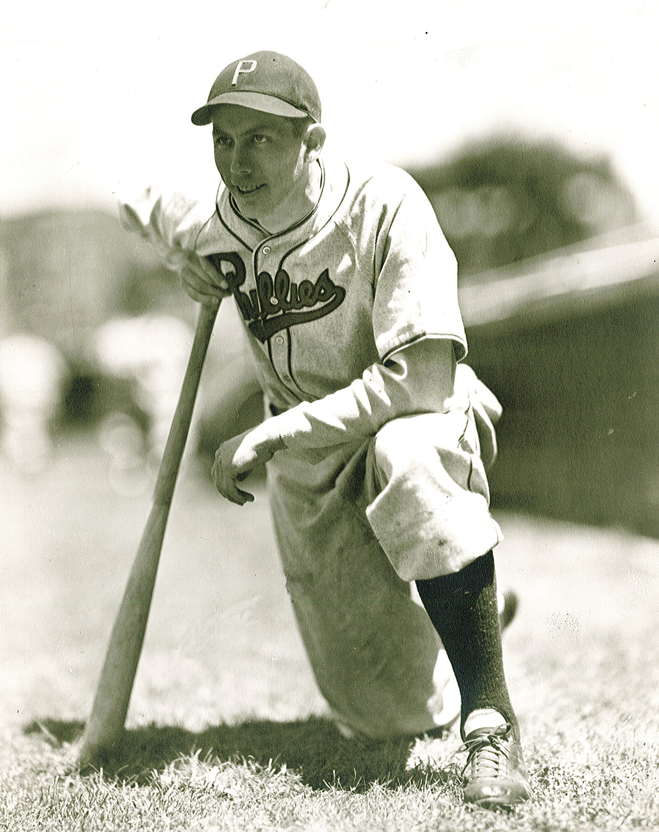 Picture of Stan Benjamin when he played for the Philadelphia Phillies